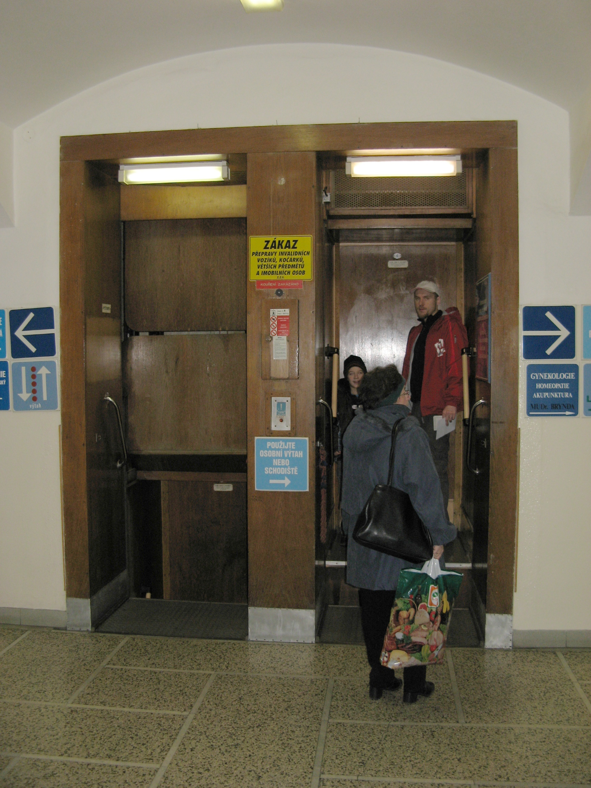 Paternoster in health centre in Kartouzská street in Prague